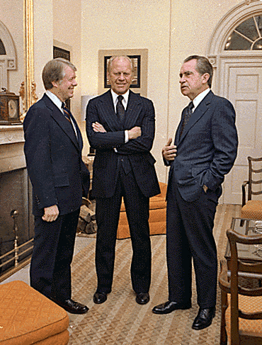 Three presidents-Jimmy Carter, Gerald Ford and Richard Nixon confer during the funeral for former Vice President Hubert Humphrey, January 1978. NLC-WHSP-C-04006-14A is the file number with the Jimmy Carter Library, Atlanta GA